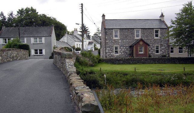 Kirkgunzeon Part of Kirkgunzeon, the building on the right hand side was once the local pub but not any longer.